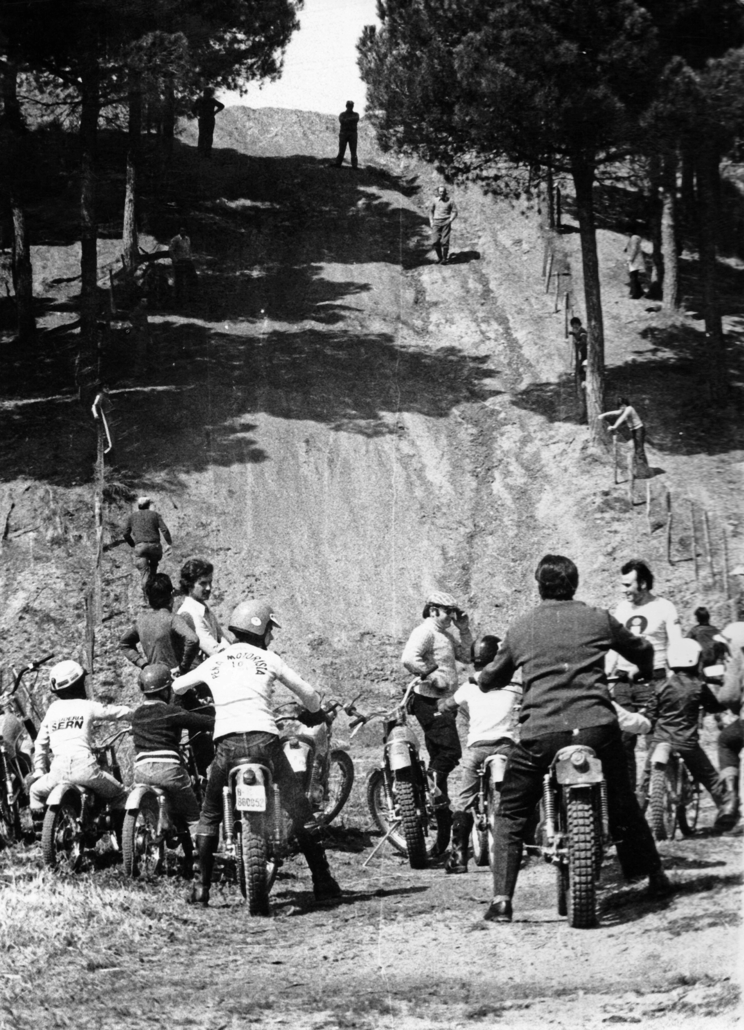 Members of the Penya Motorista 10 x Hora and the Motoclub Mollet riding around the Circuit del Vallès on the weekend of the 1975 Spanish Grand Prix of motocross (not 1973, the filename is wrong). Here they are watching the Pines Rise.